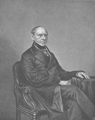 Philipp von Brunnow